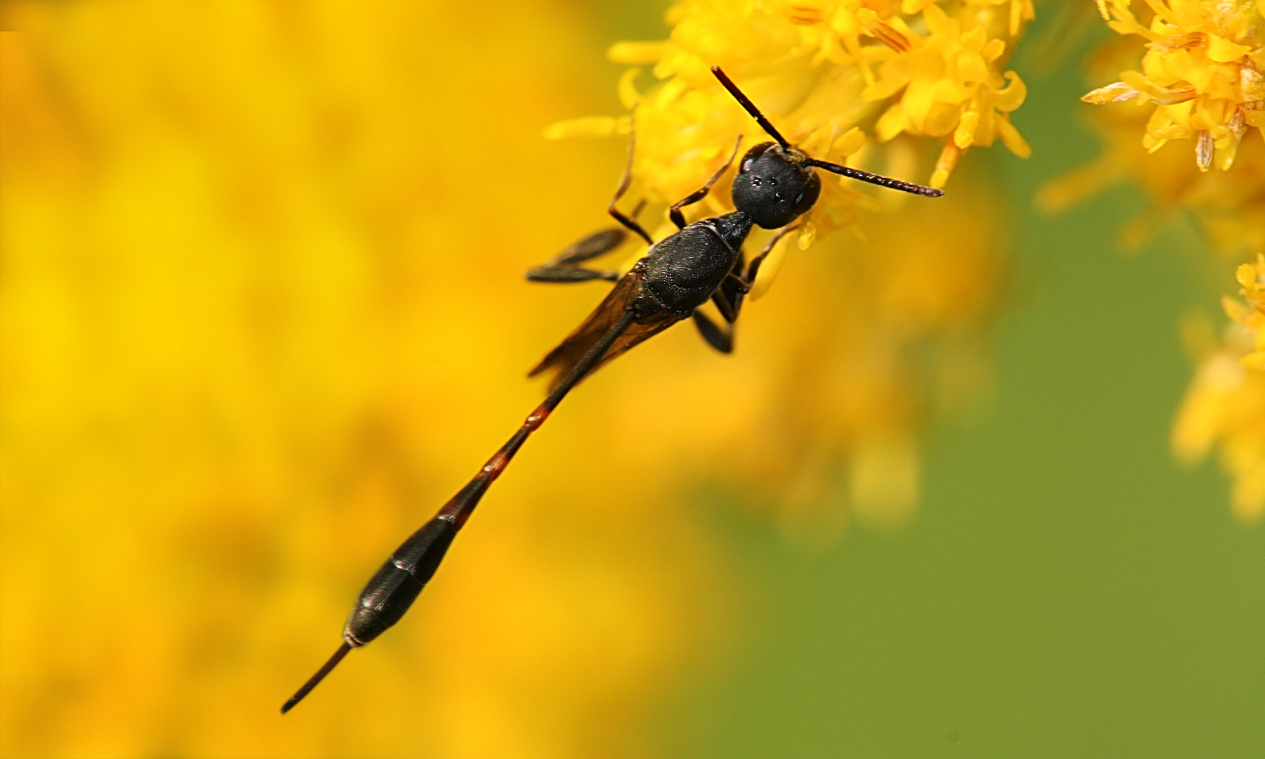 Description: Gasteruptiidae is one of the more distinctive among the Apocritan wasps, with surprisingly little variation in appearance for a group that contains around 500 species in 9 genera worldwide. The propleura form an elongated "neck", the petiole attaches very high on the propodeum, and the hind tibiae are swollen and club-like. The females commonly have a long ovipositor, and lay eggs in the nests of solitary bees and wasps, where their larvae prey upon the host larvae and provisions. As shown a Gasteruption assectator